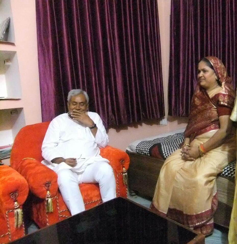 EX-MP